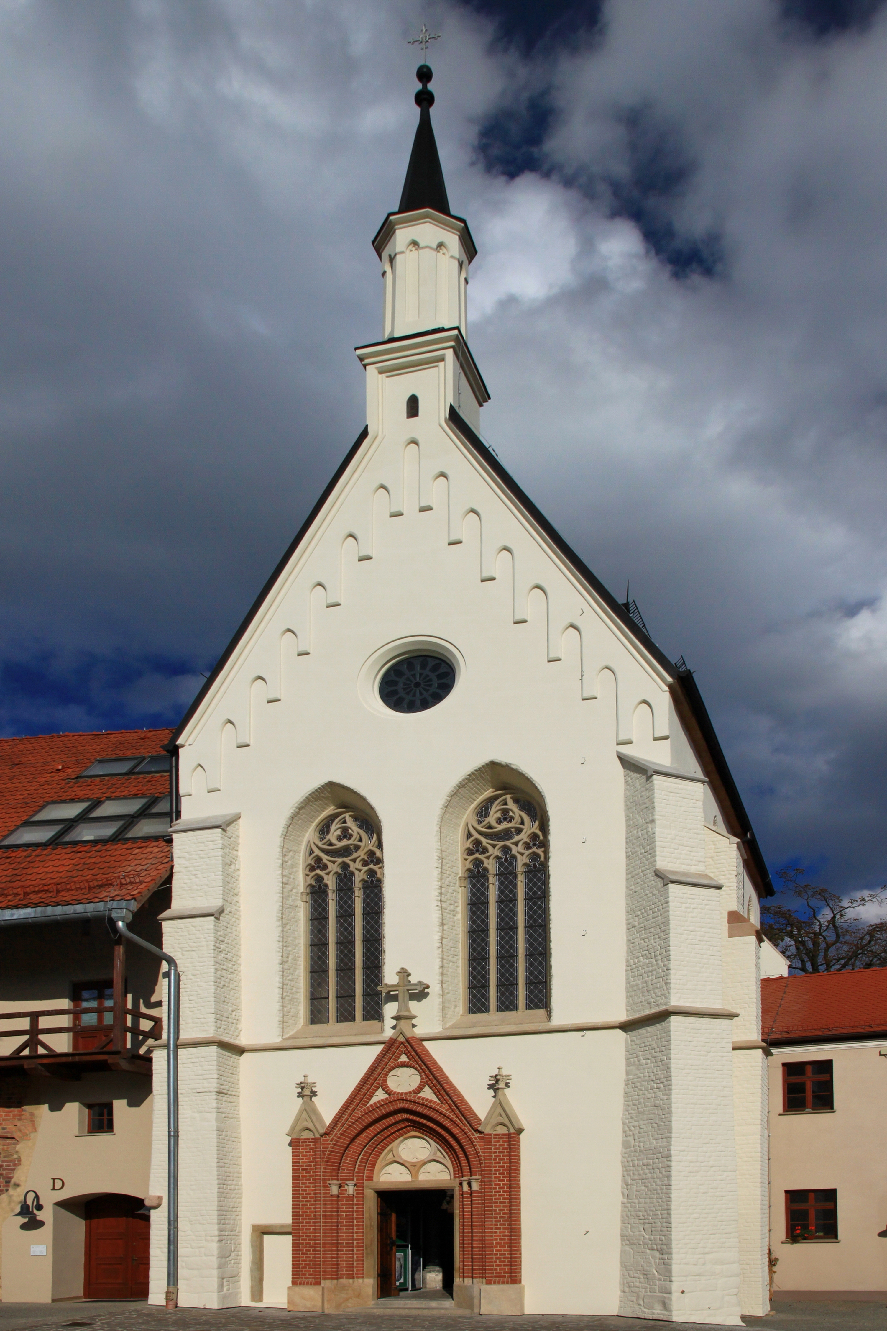 Racibórz, Chapel of St. Thomas Becket, build in 1290, 1858